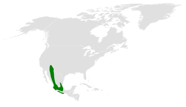 Baeolophus wollweberi distribution map, based on